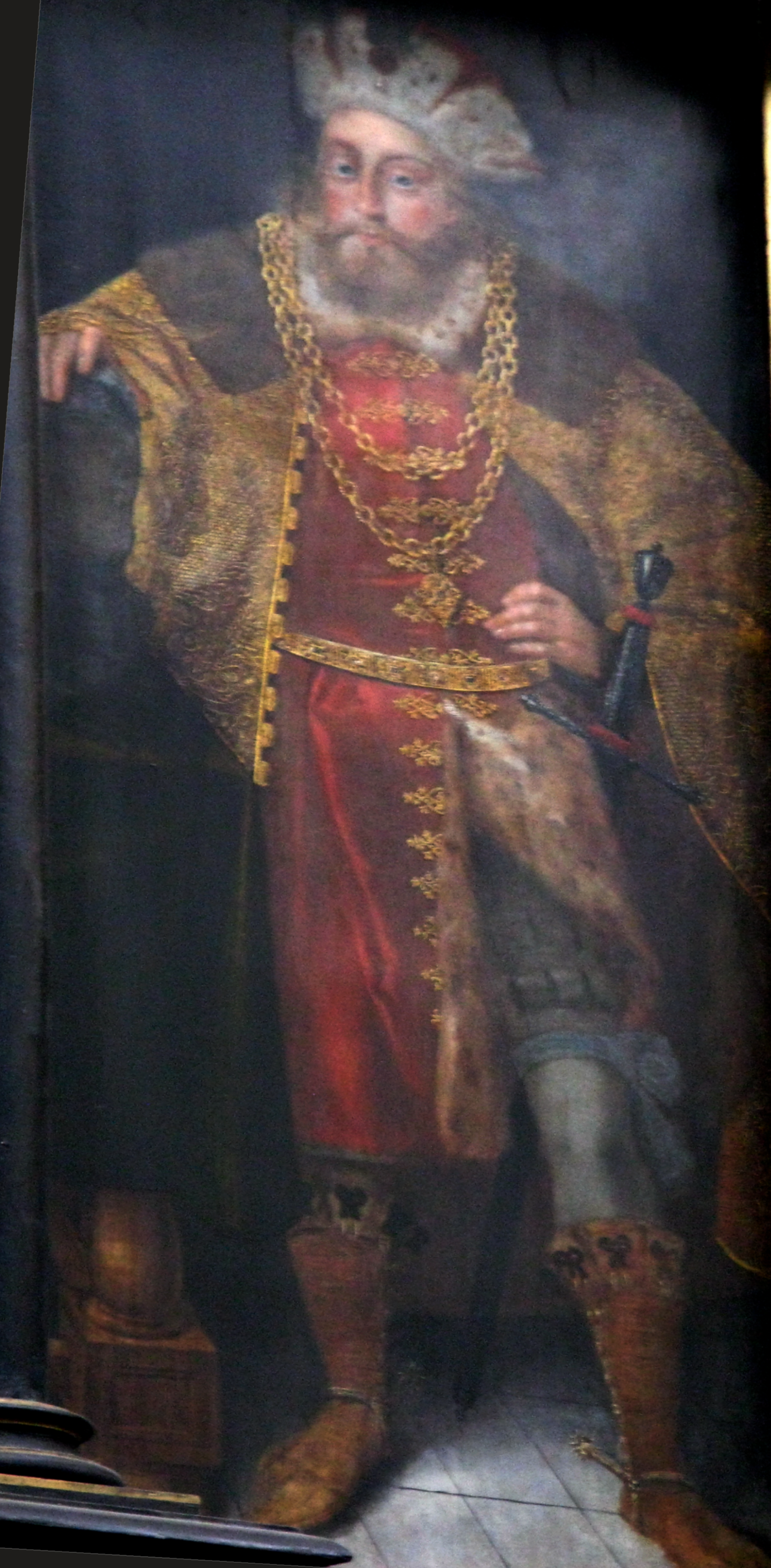 Mestwin II, Duke of Pomerania (c.1220-1294), from a group of pictures showing the benefactors of Oliwa cloister.